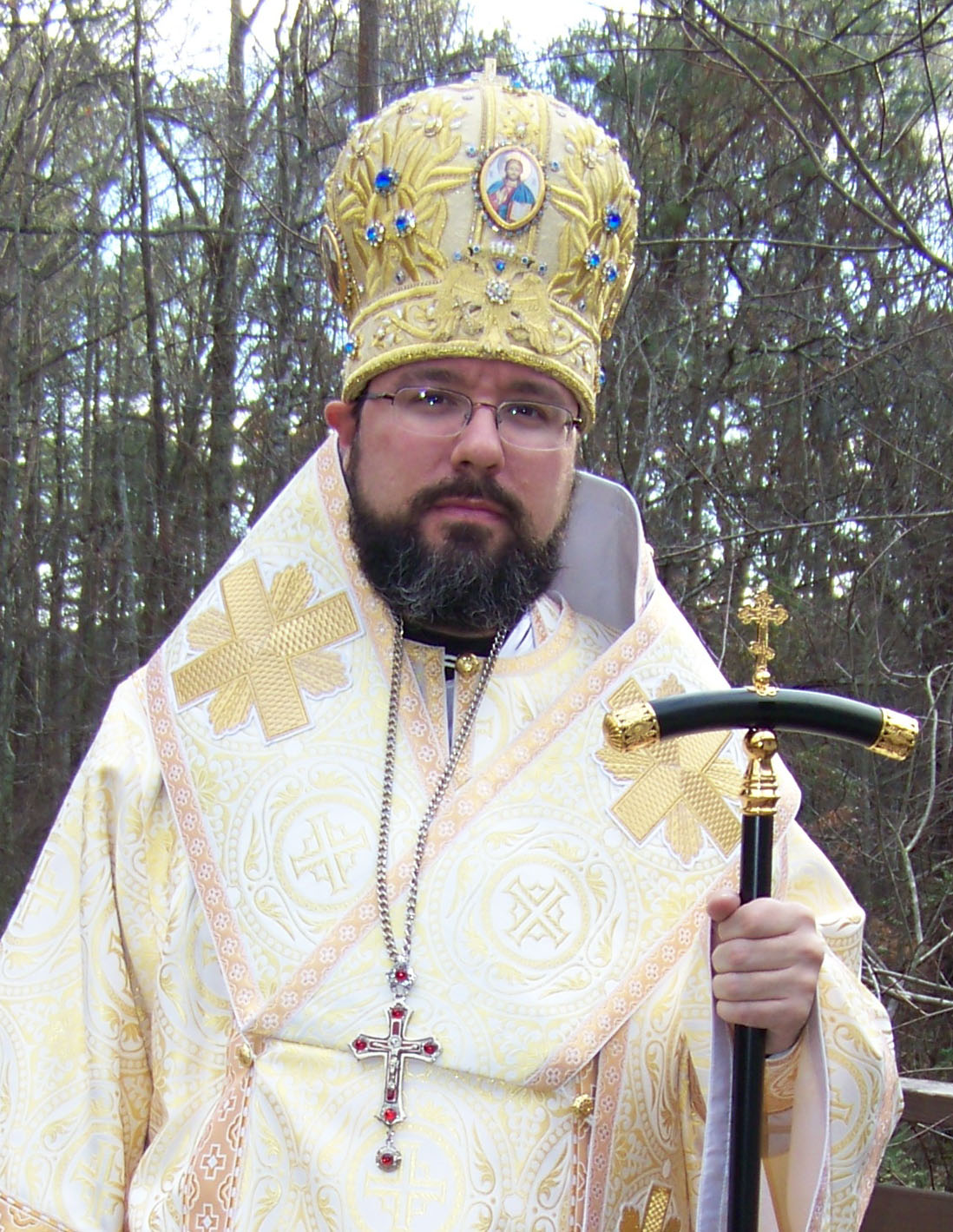 Sovereign Patriarch Nicholas III in mundo +Bryan D. Ouellette, Ph.D. of the Holy Imperial Russian Orthodox Church in exile.